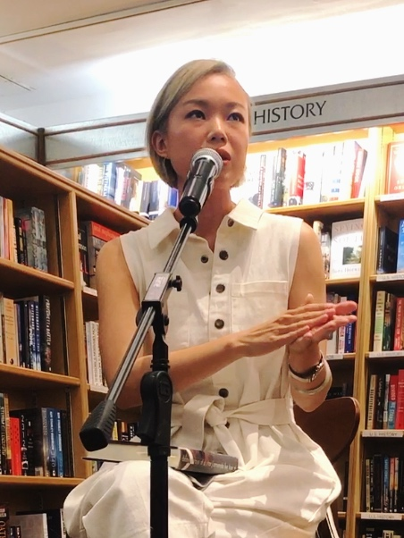 Amanda Lee Koe at McNally Jackson Books, New York, July 2019